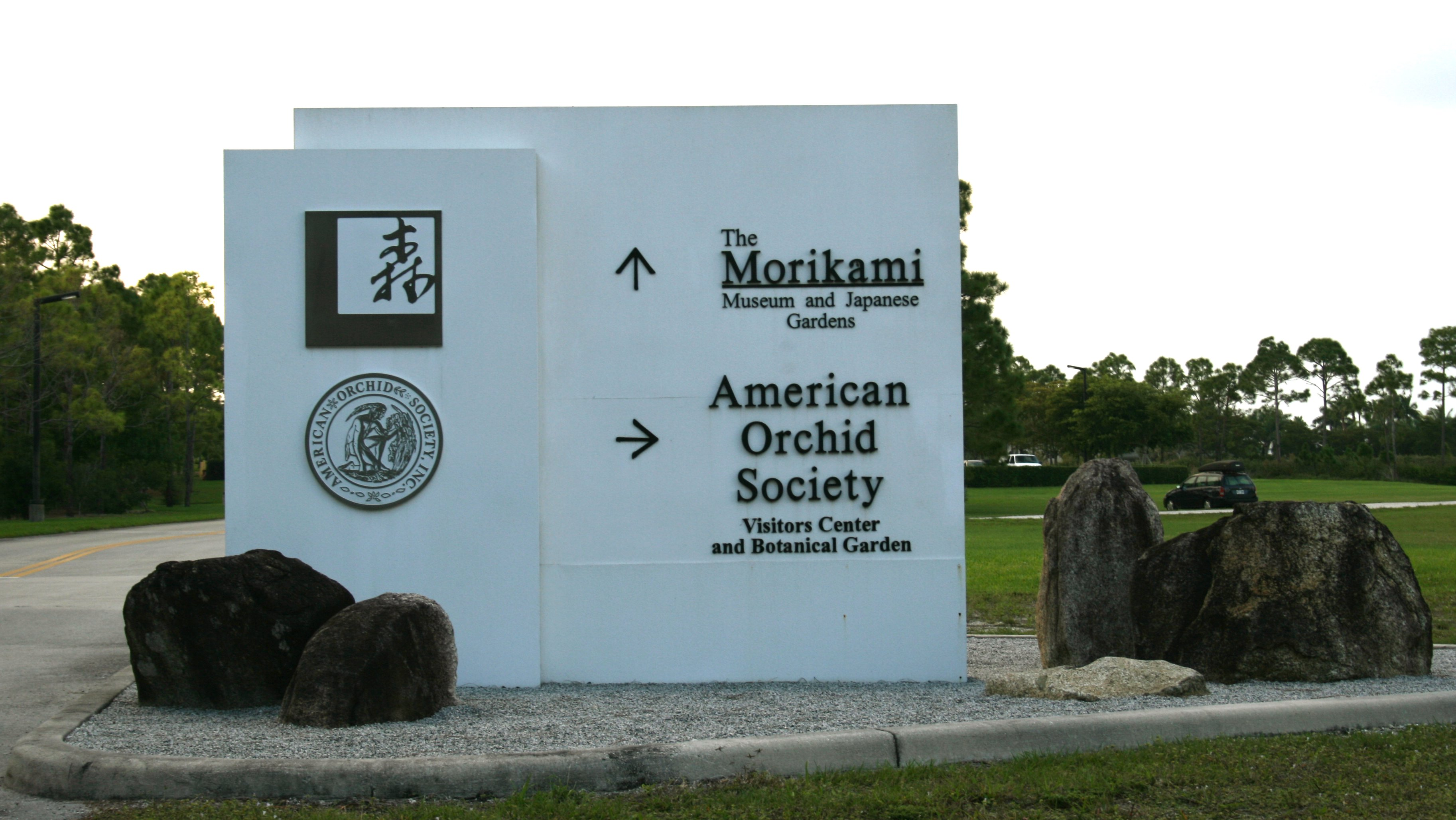 Taken as an after thought while leaving the Morikami Japanese Gardens. Taken while driving (didn't have time to fix the lighting). --Douglas Whitaker 23:53, 2 January 2007 (UTC)